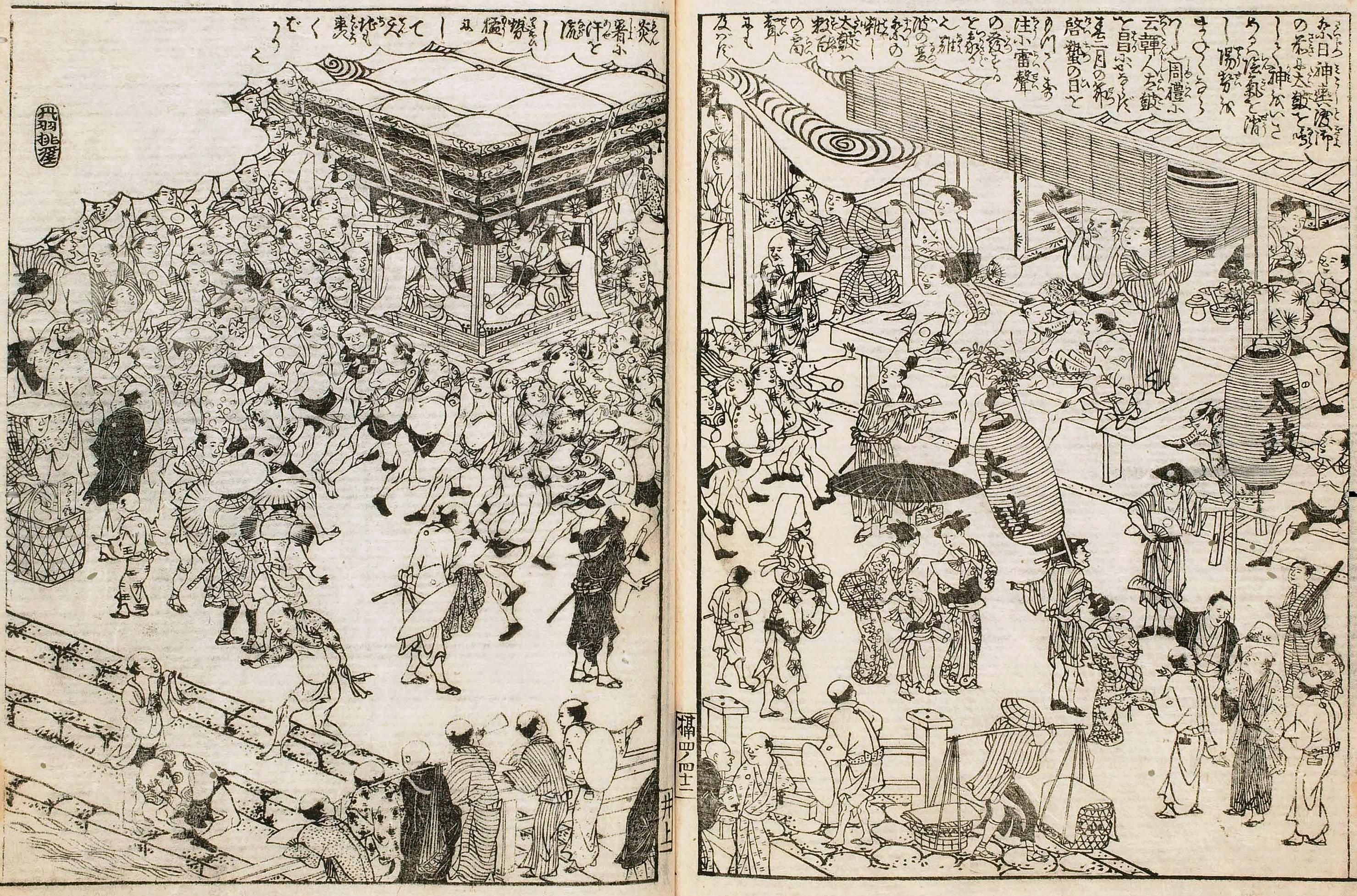 The famous Drum called "futon-daiko" played on a festival carriage with bedding on the roof, Namba shrine. From the series of Settsu Meisho-zue or a guide books to the famous places in Settsu manor in Osaka.